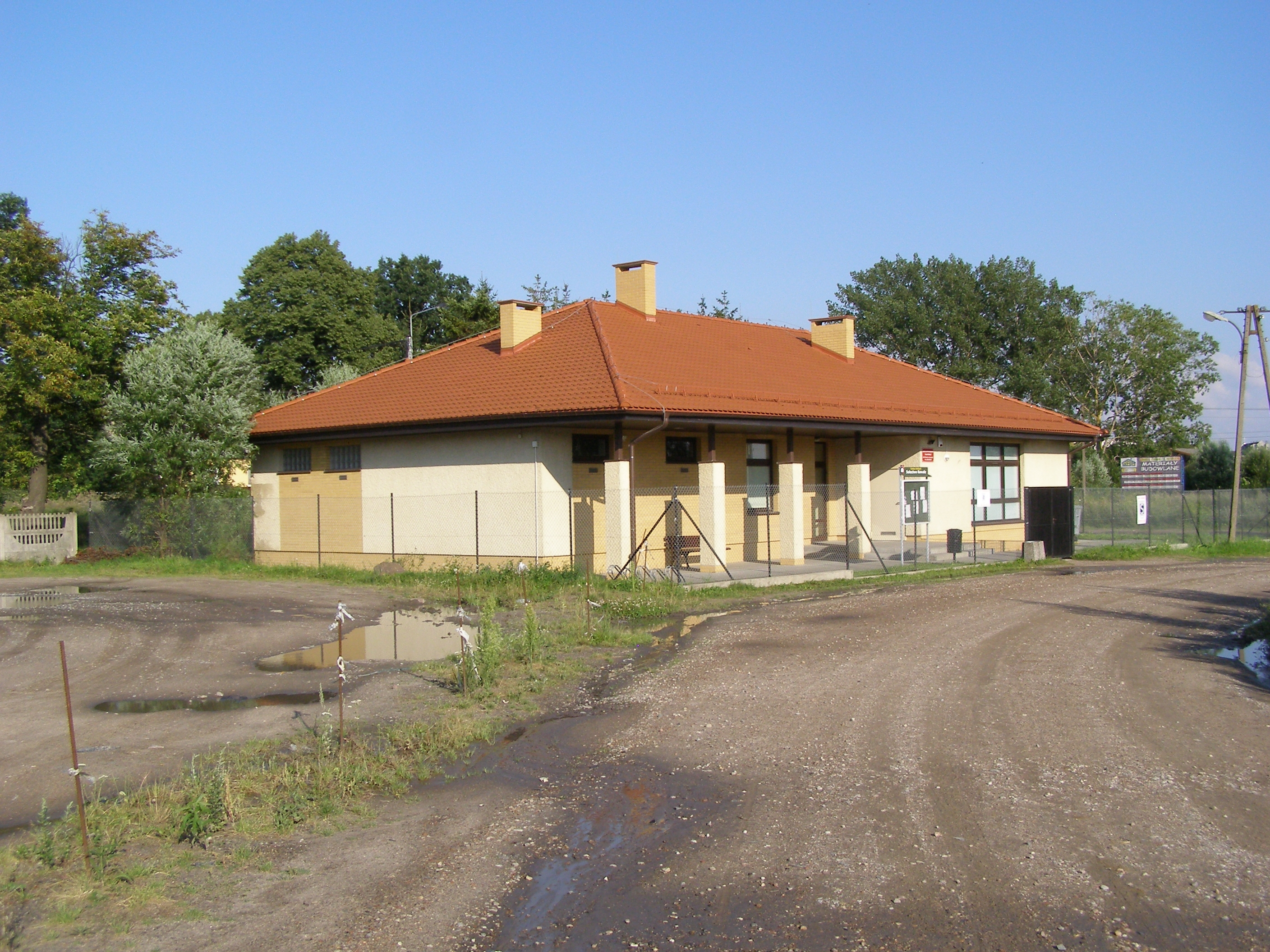 Kowale - a division of the Culture Center in Kolbudy